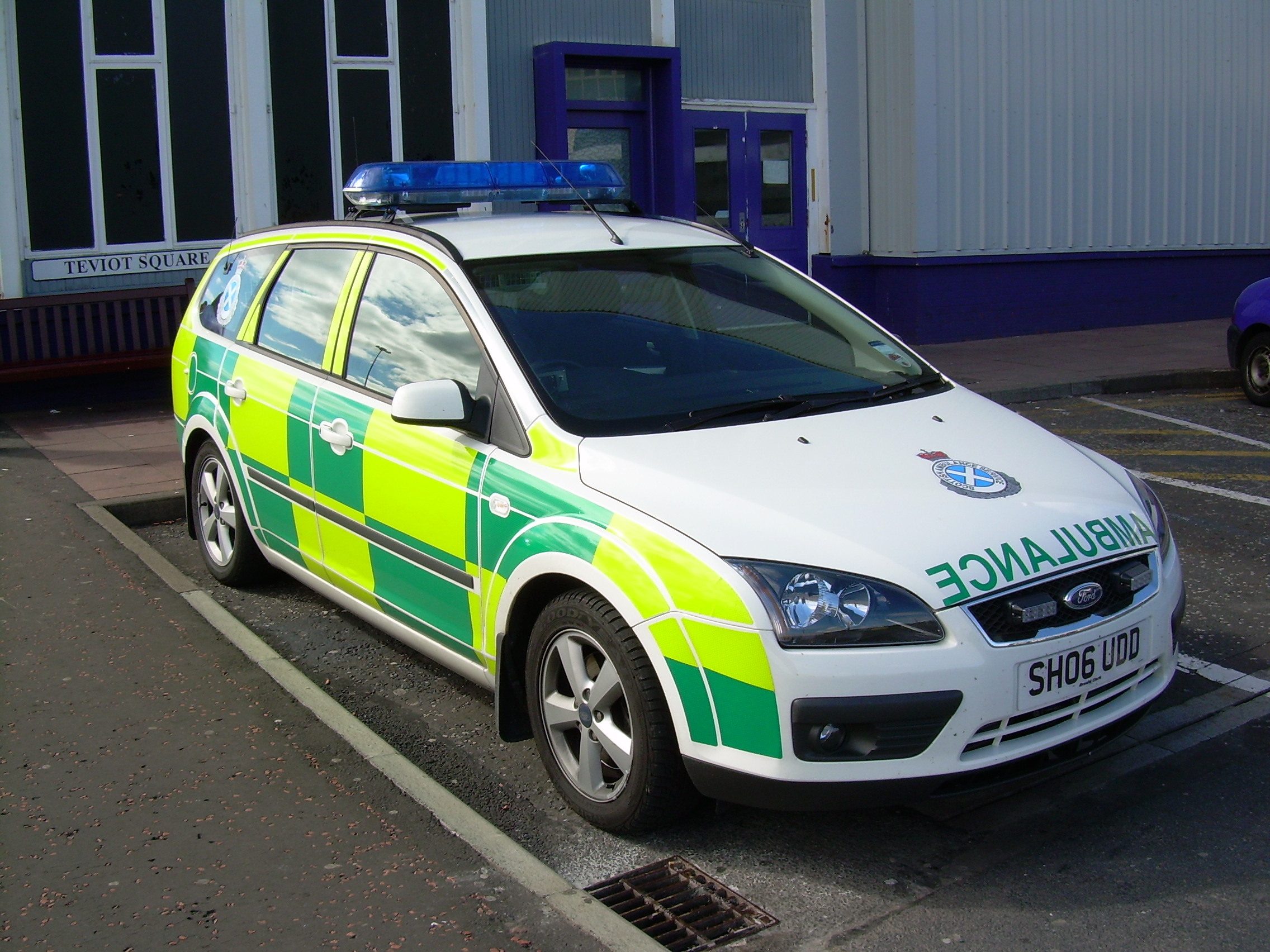 A Scottish Ambulance Service RRU (Rapid Response Unit). A Ford Focus estate, with "AMBULANCE" in mirror writing ("ECNALUBMA").